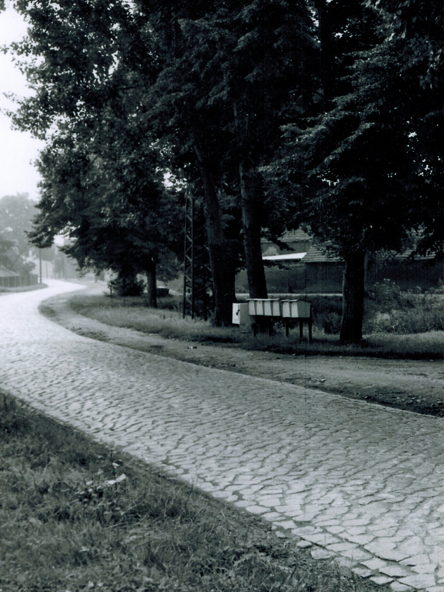 letterbox system